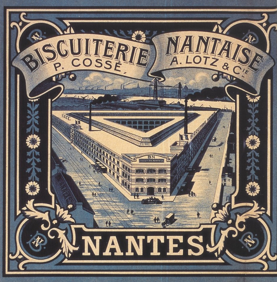 Biscuiterie nantaise P. Cossé, A. Lotz & Cie - Nantes